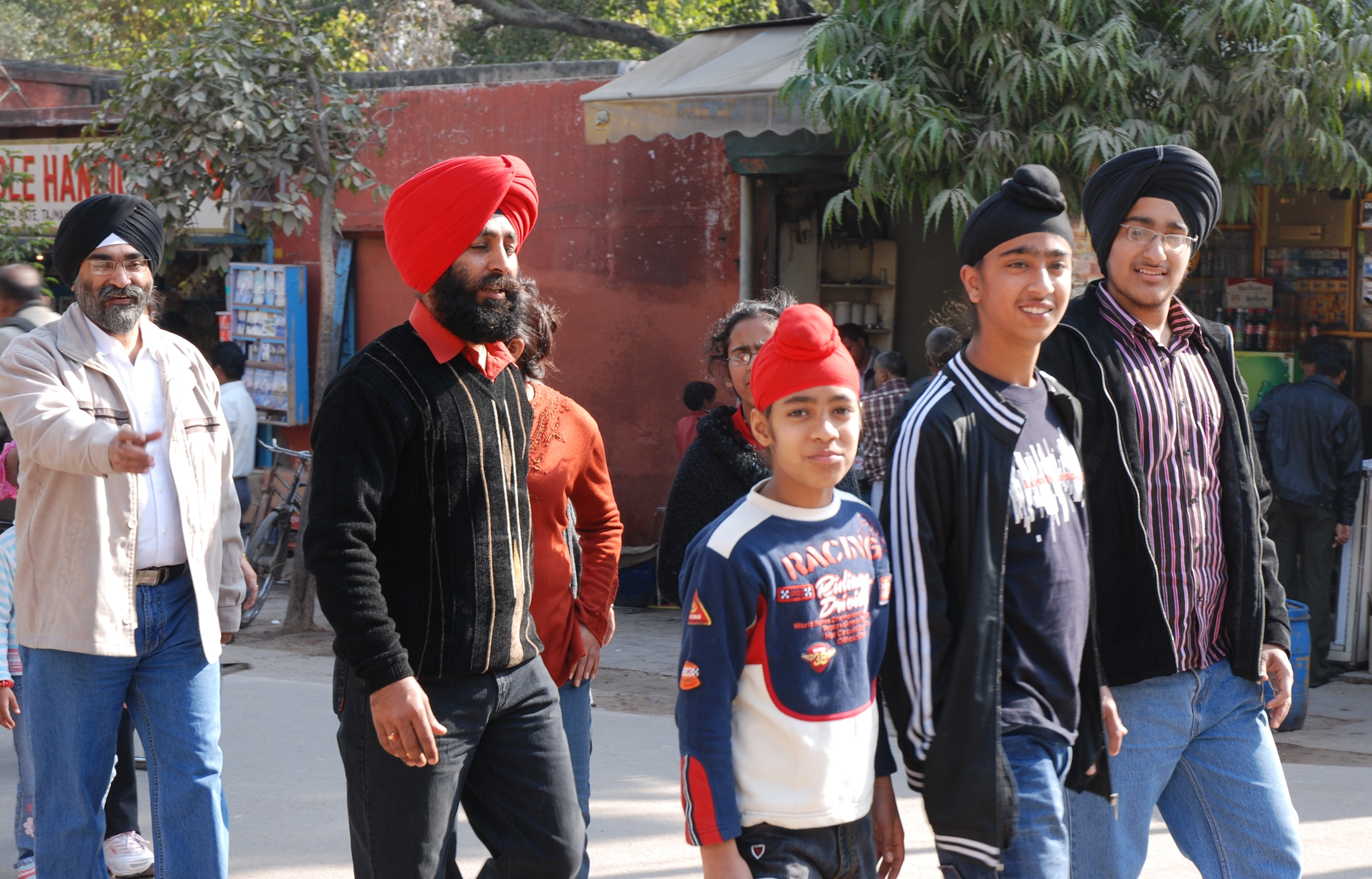 Sikh family in Agra, northern India